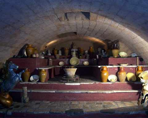 Desciption: Hypogeum_De_Beaumont_Bonelli_Bellacicco_amphitheatre (Taranto) Photographer: --Asia Date: 8.5.2006